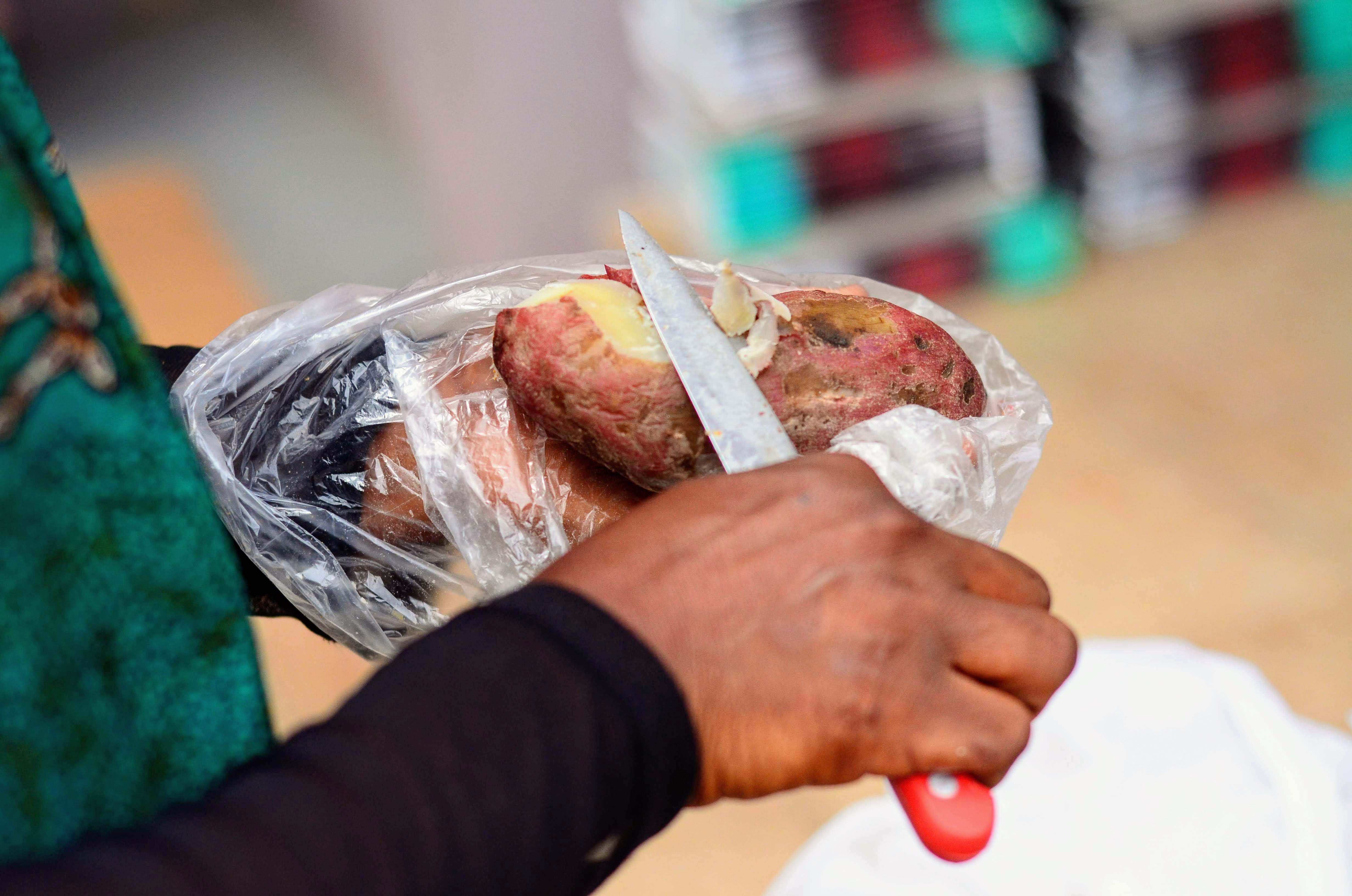 This is an image with the theme "Play" from: Ghana